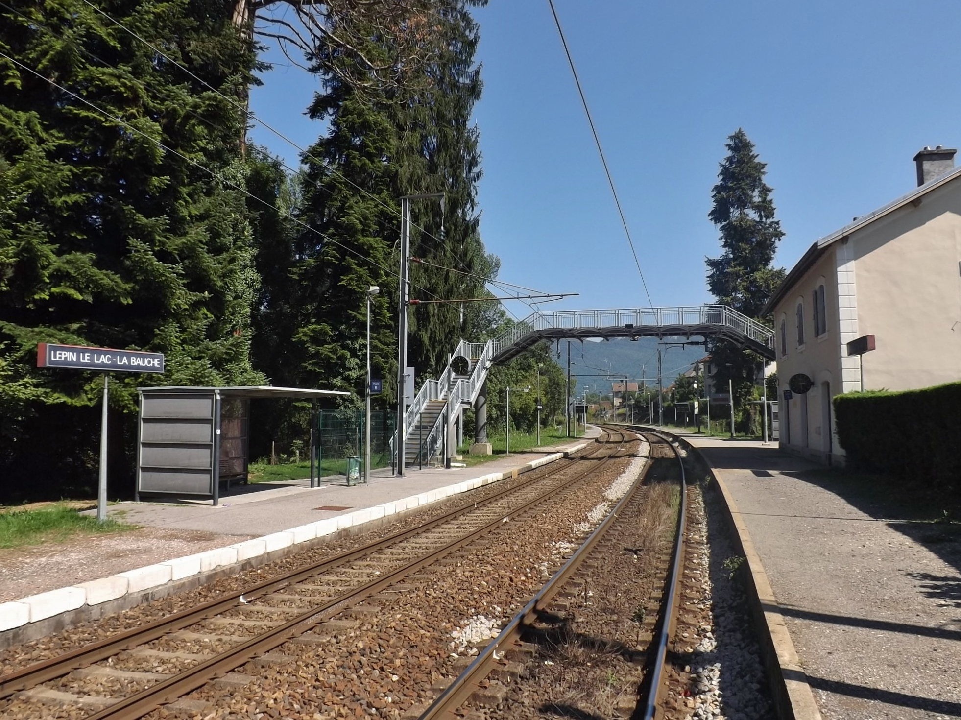 Sight of platforms and tracks in Lépin-le-Lac - La Bauche railway station, in Lépin-le-Lac (Savoie, France), here in the direction of Chambéry.